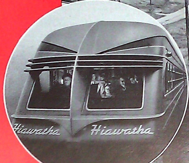 Exterior photo of the beaver tail observation car from a Milwaukee Road flyer on the Midwest Hiawatha detailing the changes made to the train's cars since the train's 1940 premiere.